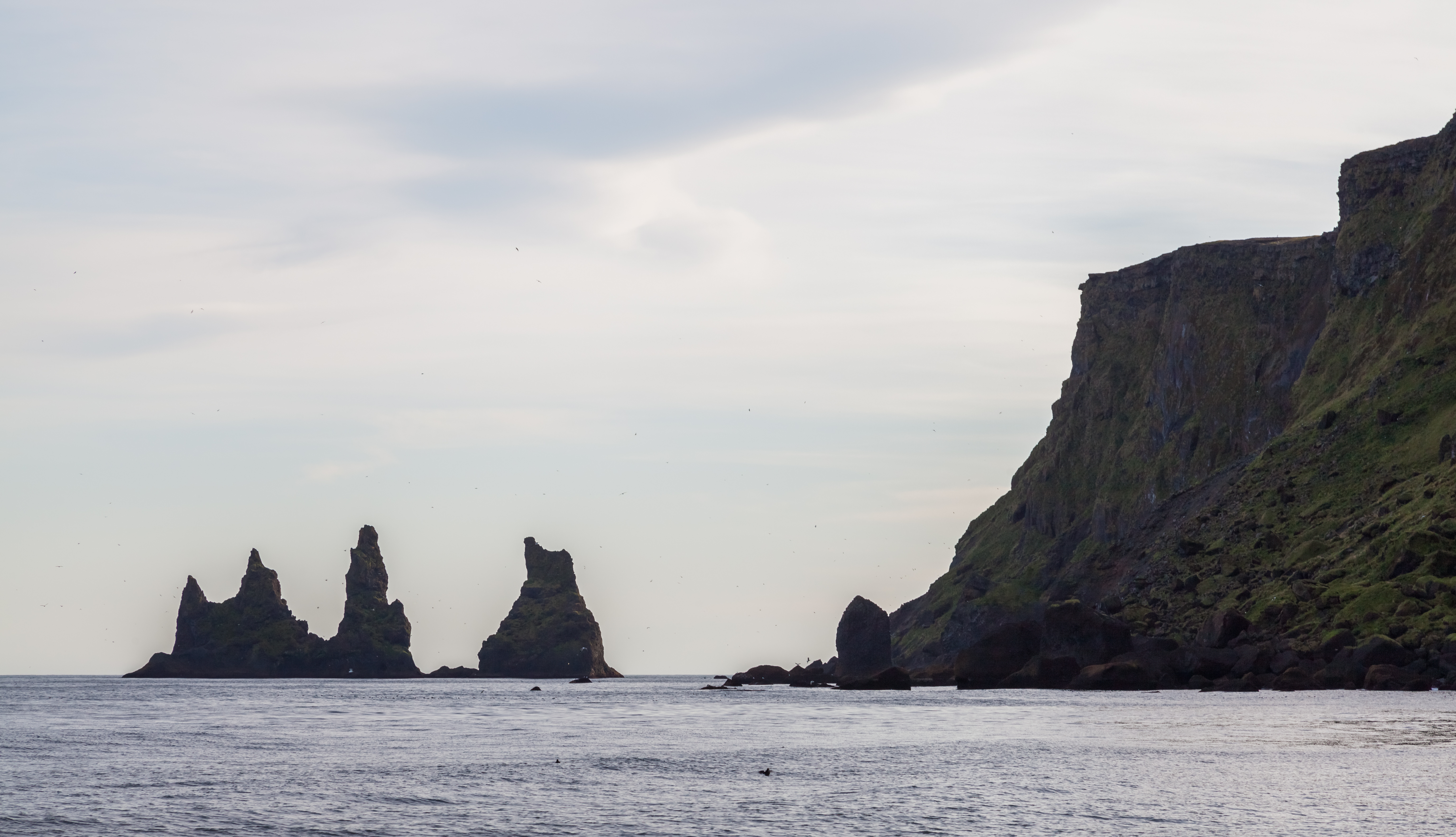 Reynisfjara, Suðurland, Iceland